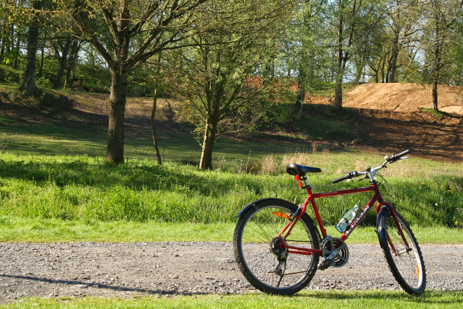 A rigid fork mountain bicycle